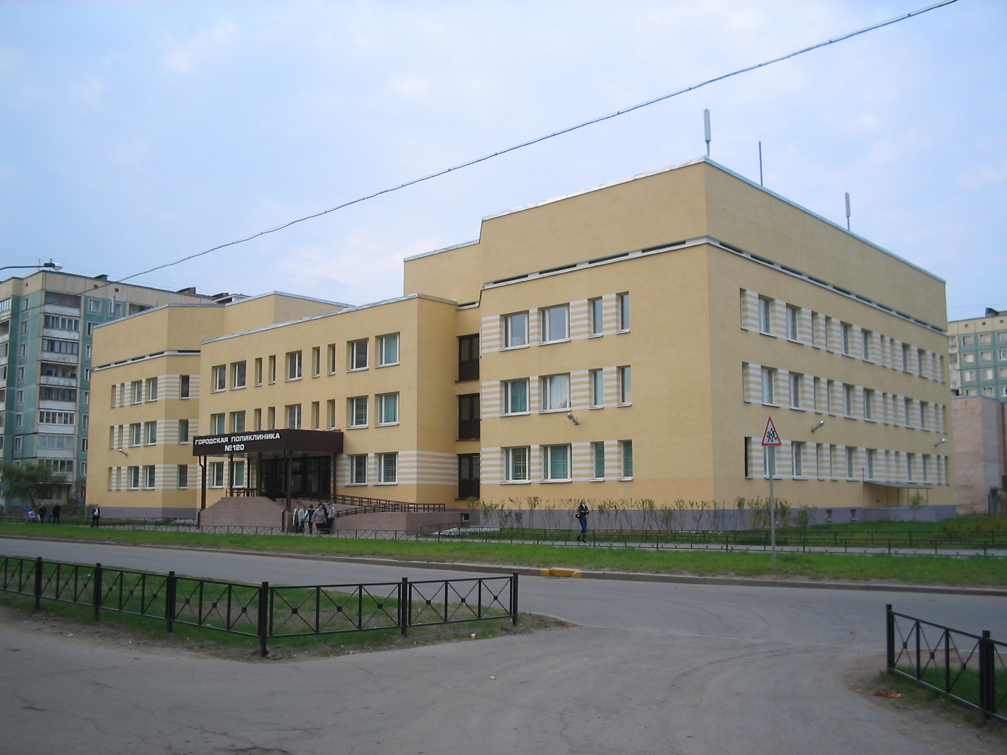 4 Lenskaya St St. Petersburg